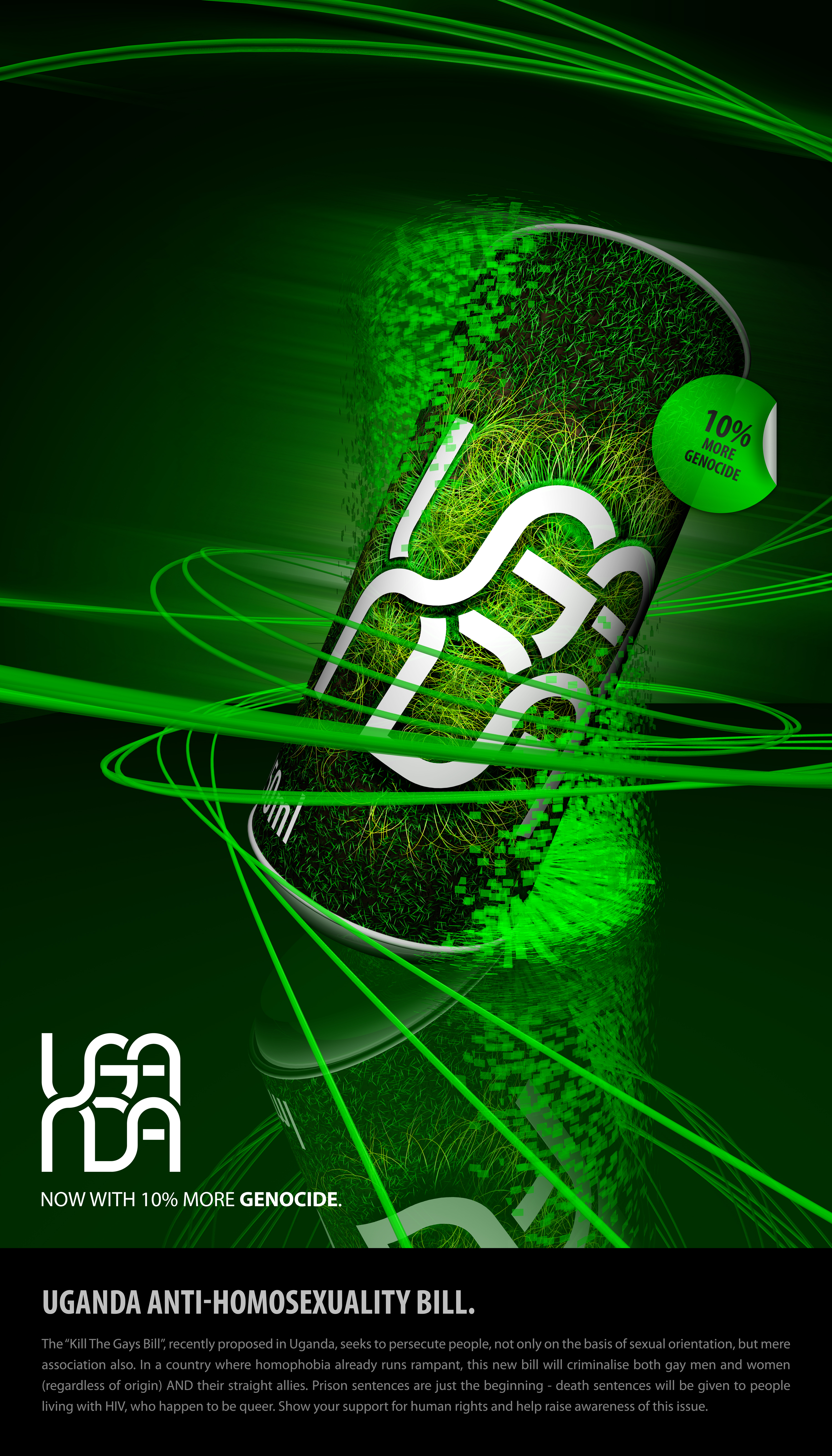 Artist's take on the Uganda Anti-Homosexuality Bill